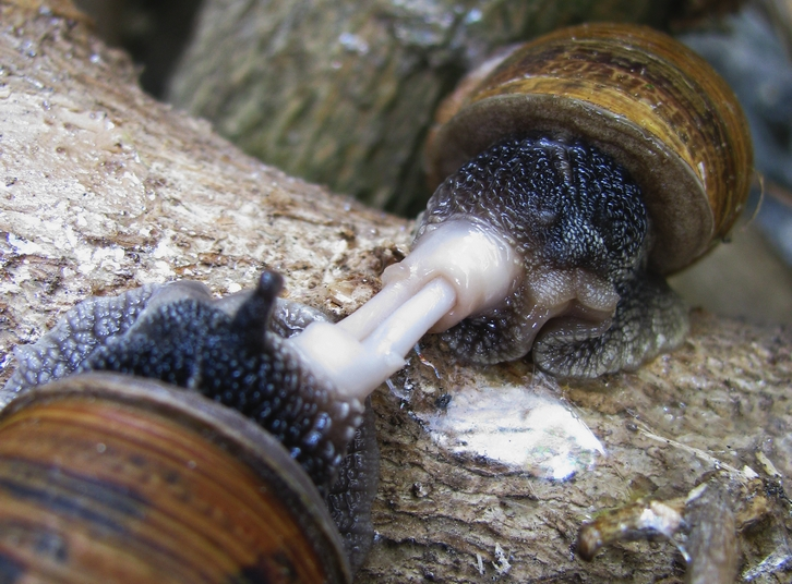 Helix aspersa snails mating. Normally the two snails would be huddled together; these two appear to have been partially pulled apart, either simply by gravity since they are on a rounded branch, or by human intervention.